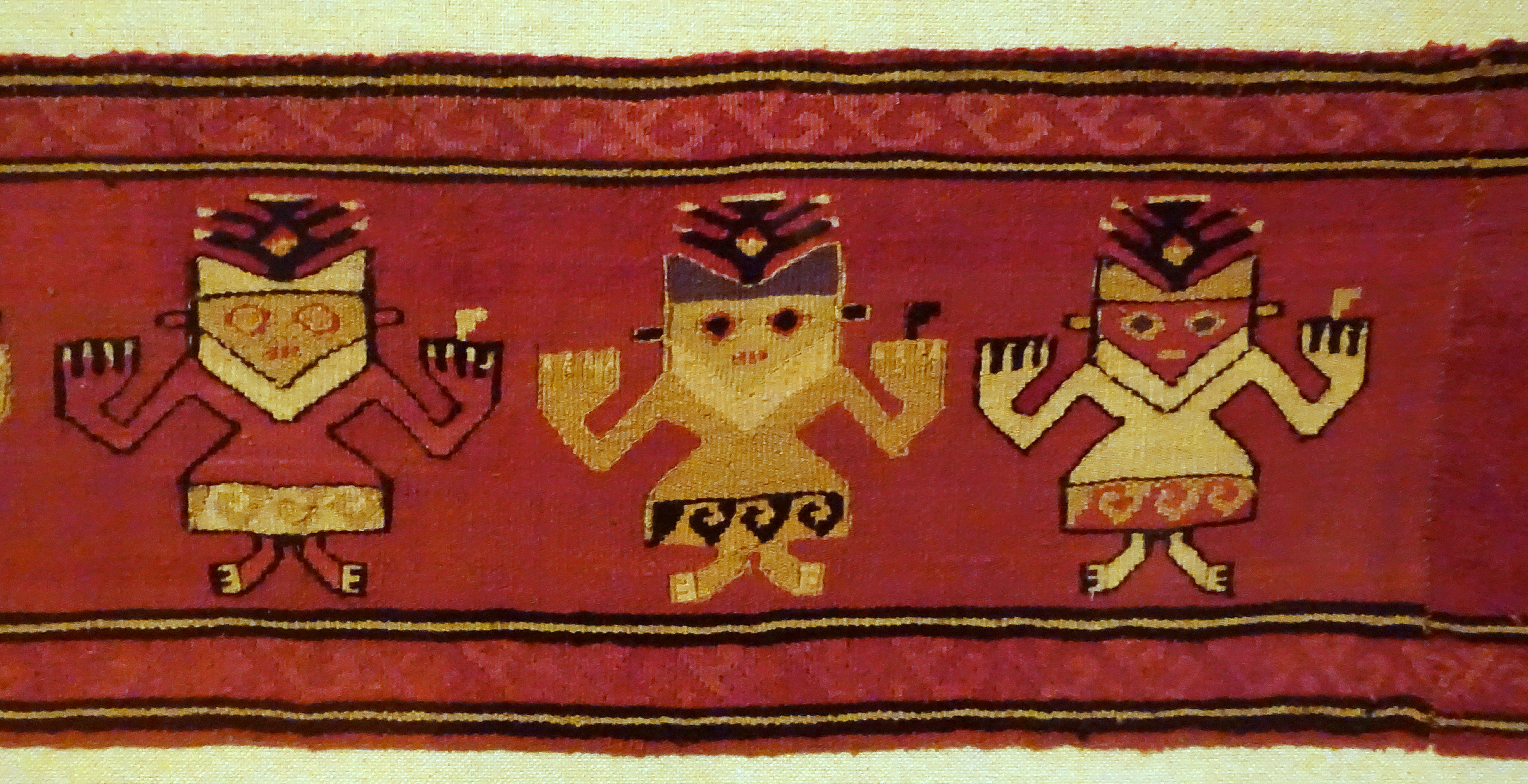 Exhibit in the Krannert Art Museum, University of Illinois at Urbana-Champaign - Urbana-Champaign, Illinois, USA. This work is old enough so that it is in the public domain.